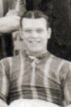 Henry Simons while with Brentford FC in 1913/14